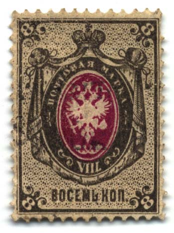 Russia stamp, 1875, 8 k.